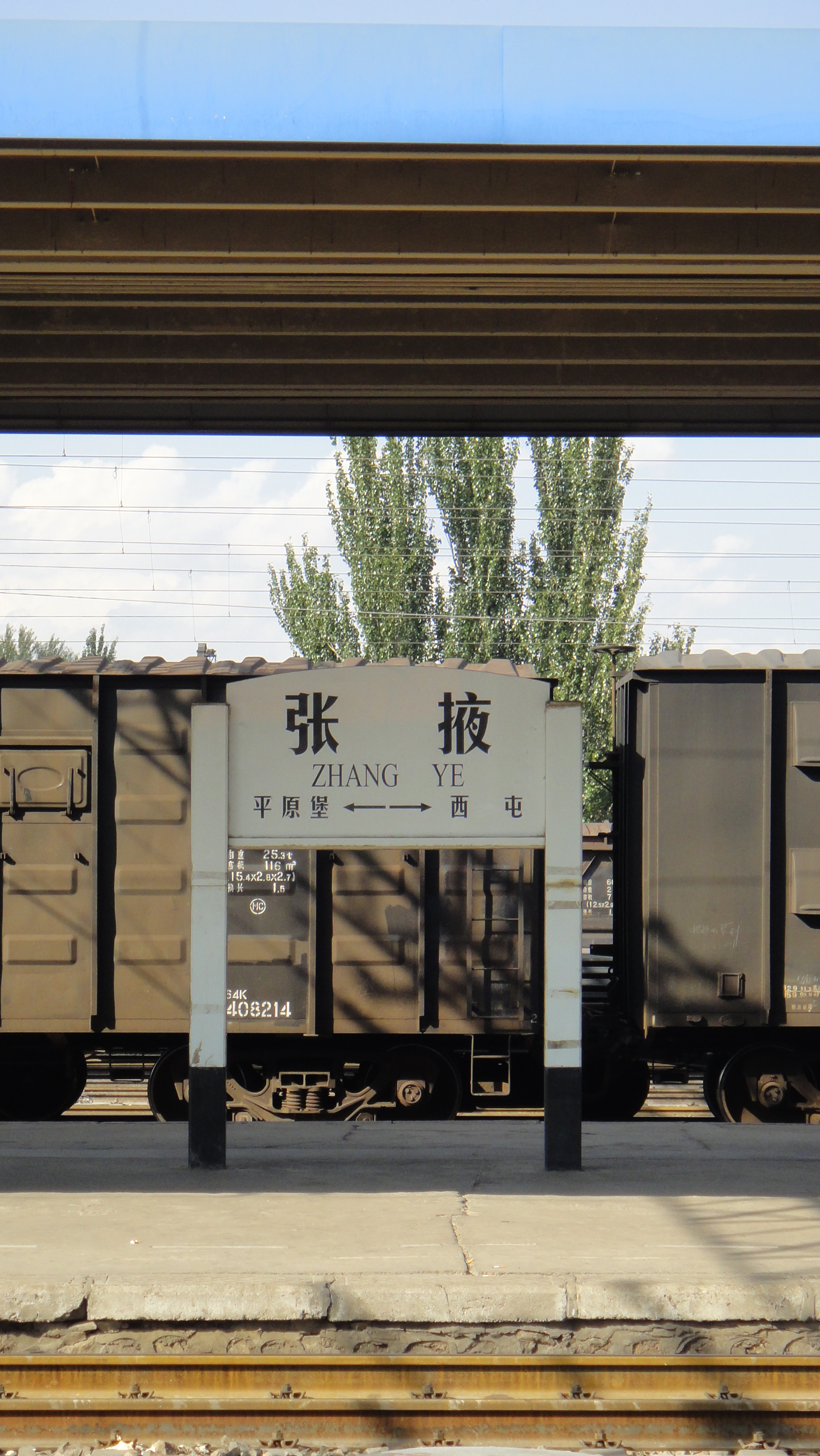 Picture taken across the tracks to island platform